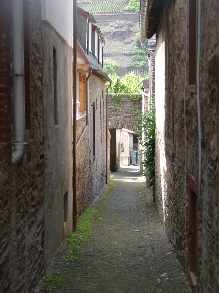 One of the twelve bridges within the railway dam in Bruttig on the Mosel river. Remnant of a planned and partially built, but never completed strategic railway. Note the vineyard on top of the dam.